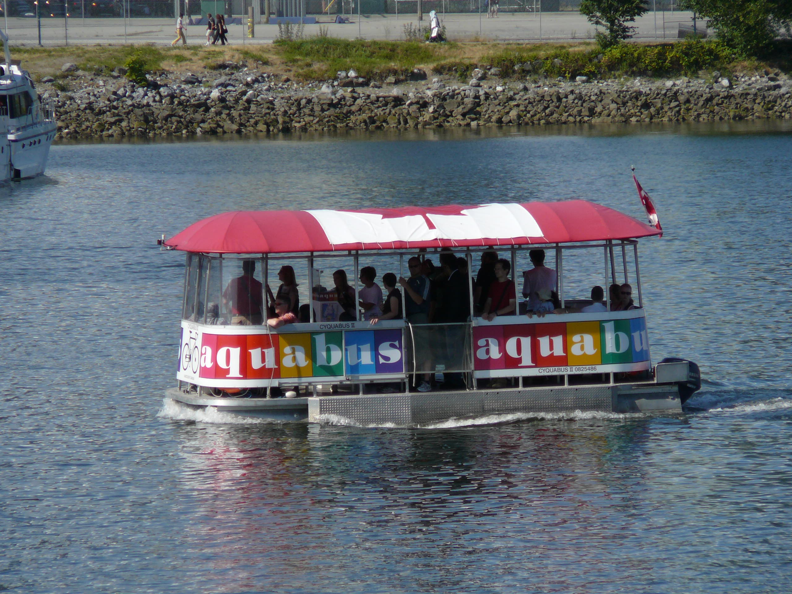 Aquabus in Vancouver